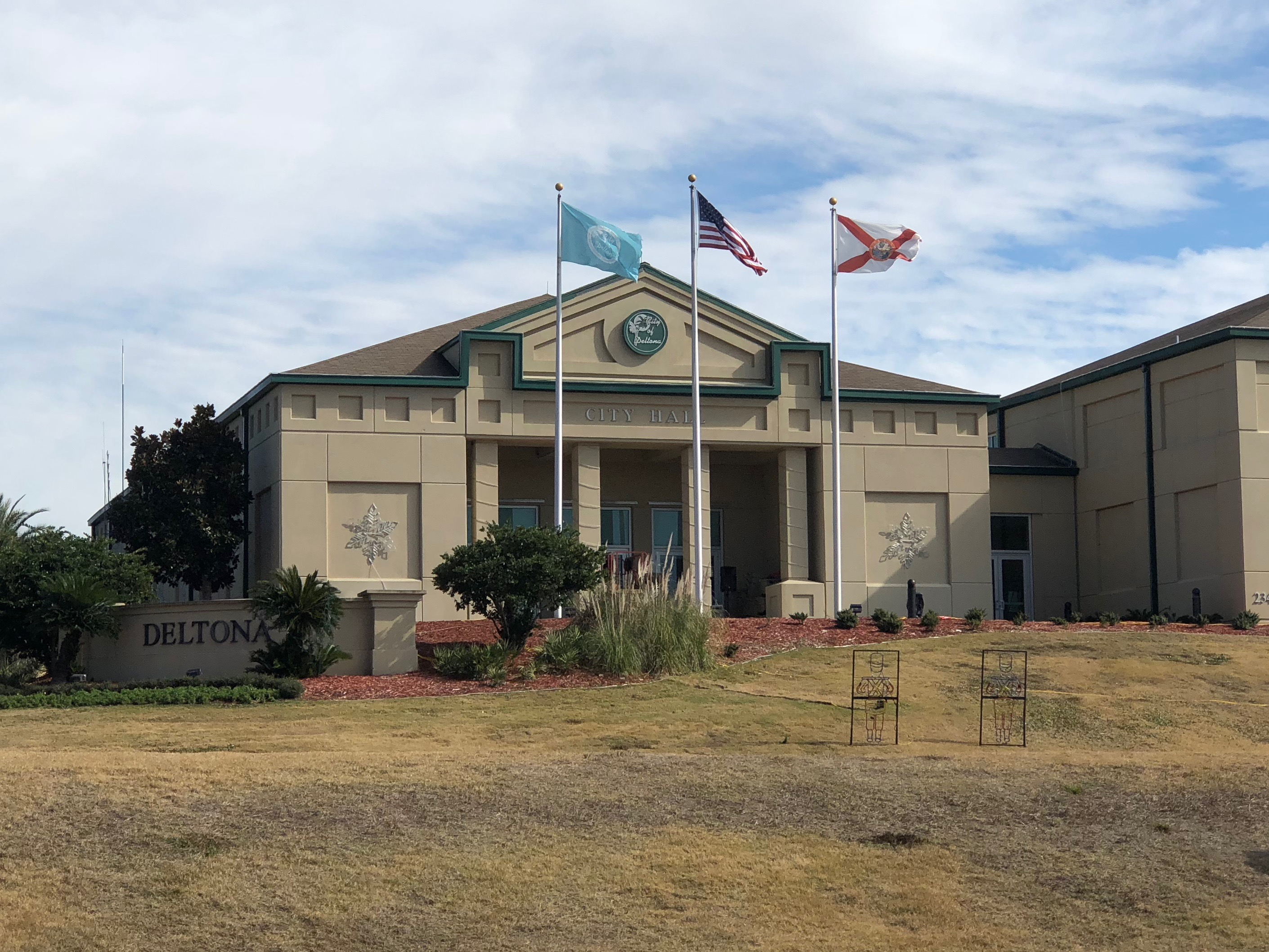 Front view of City Hall in Deltona, Florida, January 6, 2018.